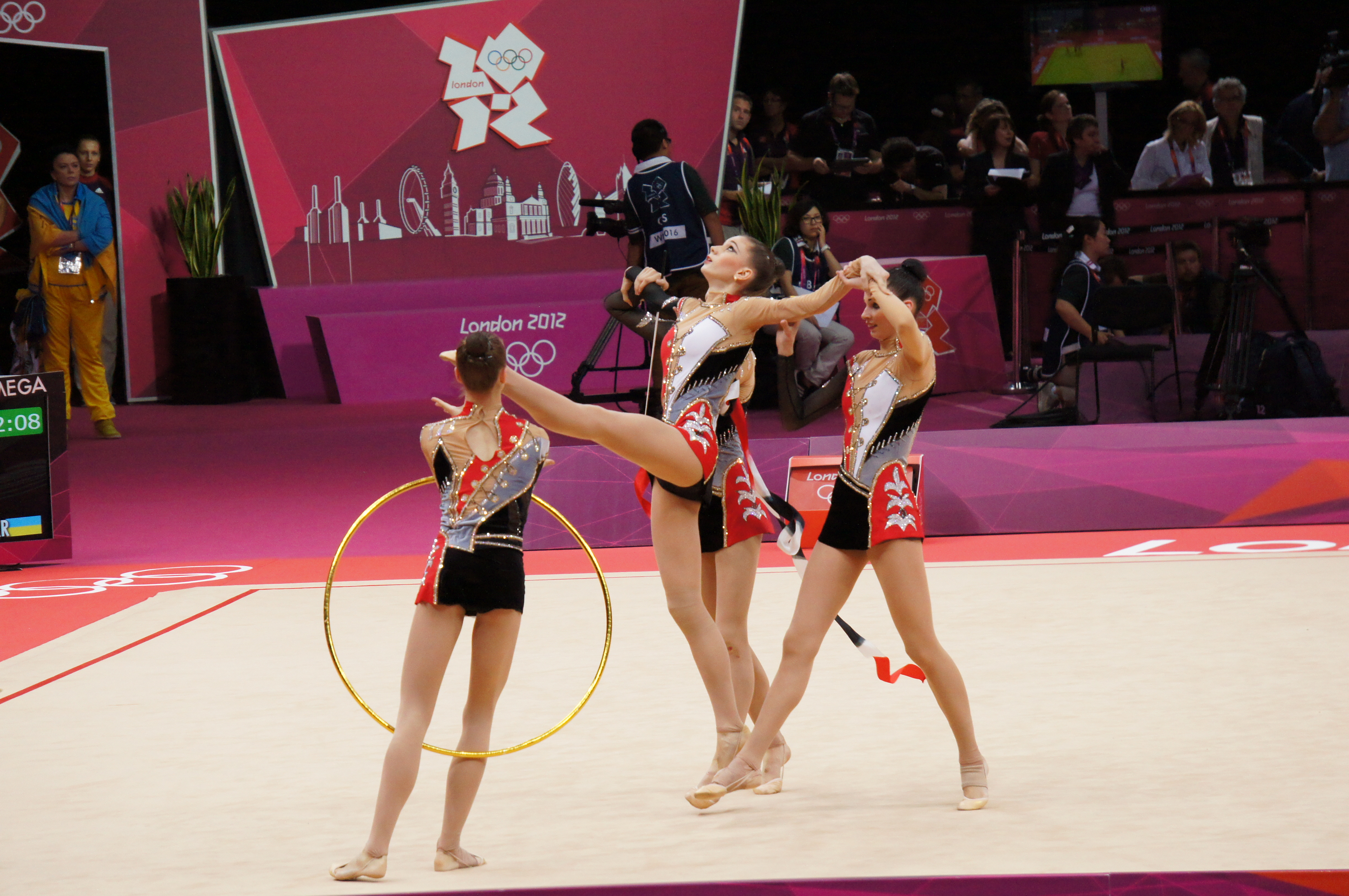 Ukraine Rhythmic gymnastics at the 2012 Summer Olympics